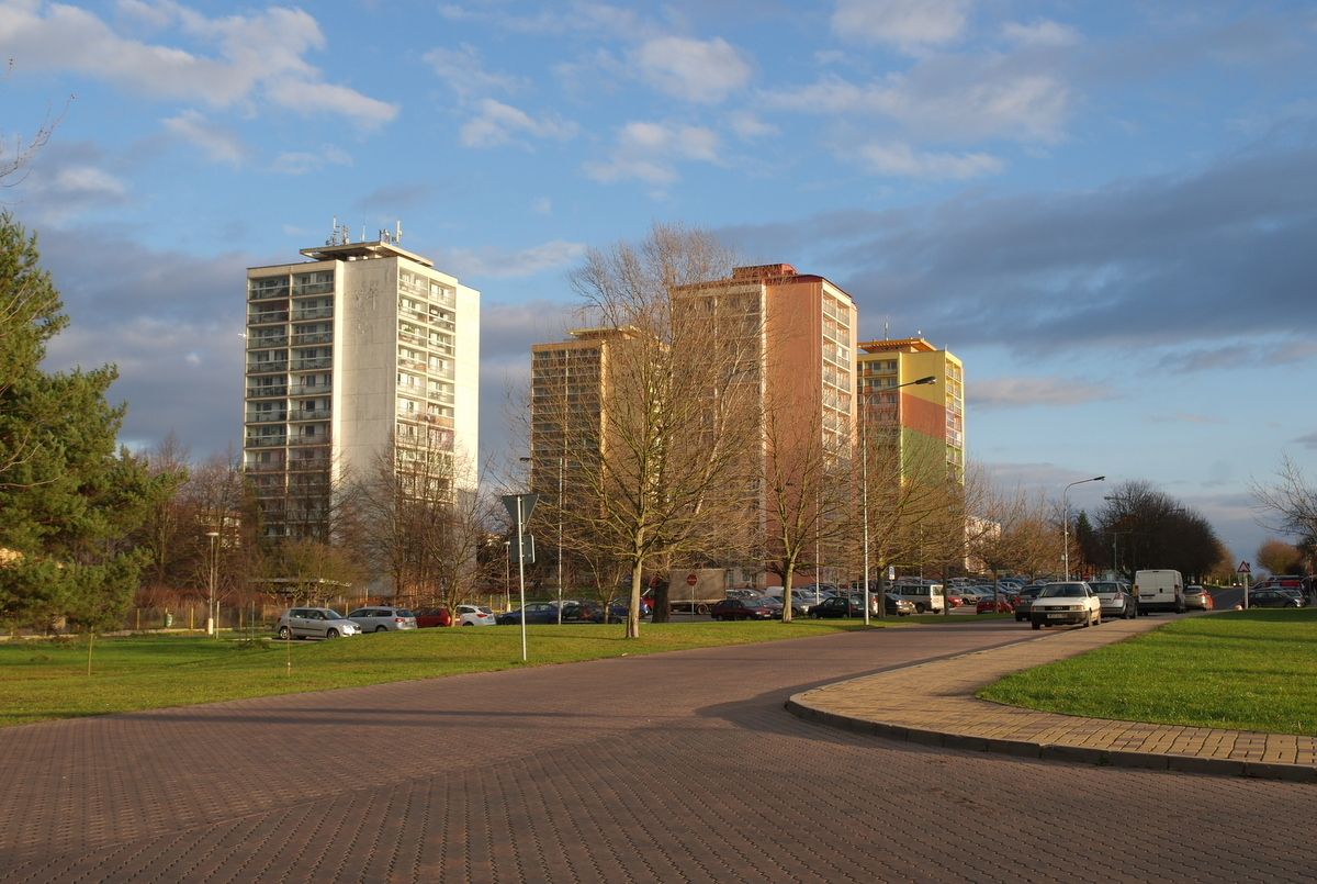 Dr. E. Beneš street, Neratovice, Mělník District